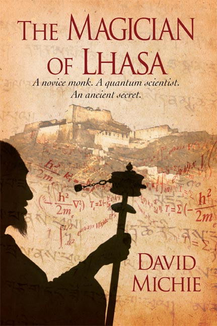 Book cover for The Magician of Lhasa. I am the copyright holder for this artwork.